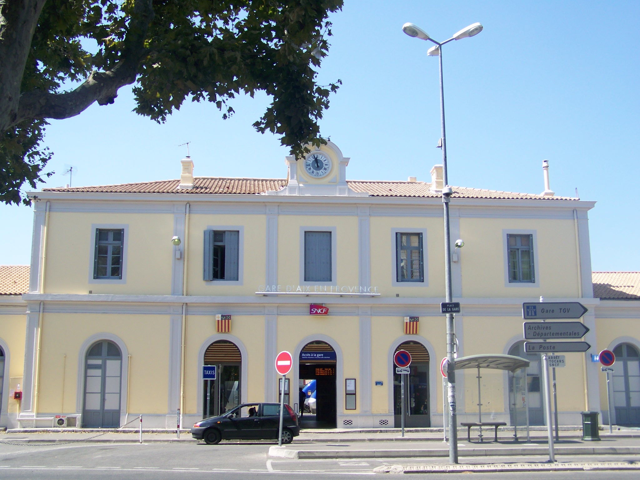 Old builging of city of Aix-en-Provence railway station, in Bouches-du-Rhône, France.